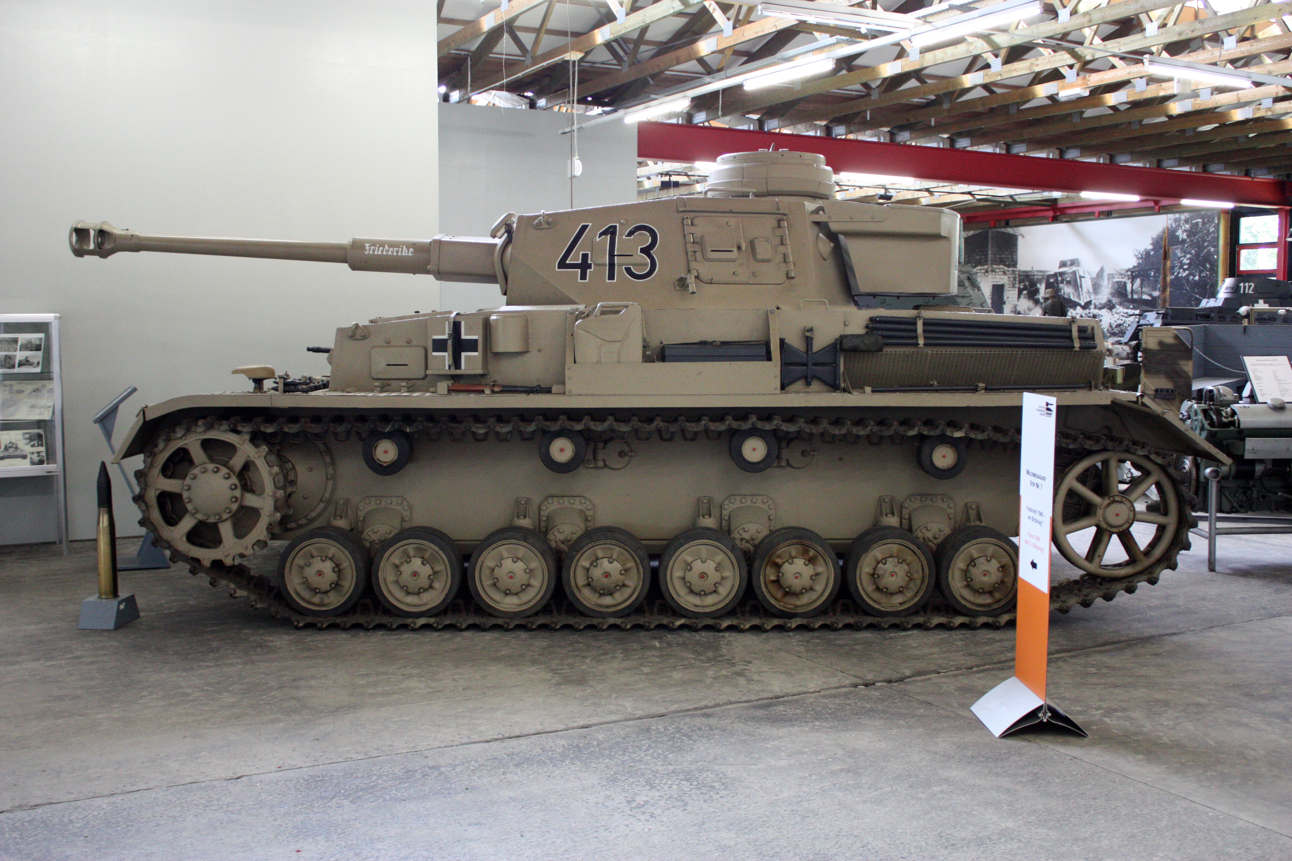 German Tank Museum